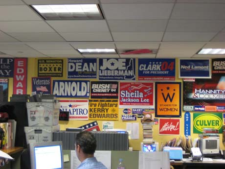 FOX News Channel's Hannity & Colmes production area